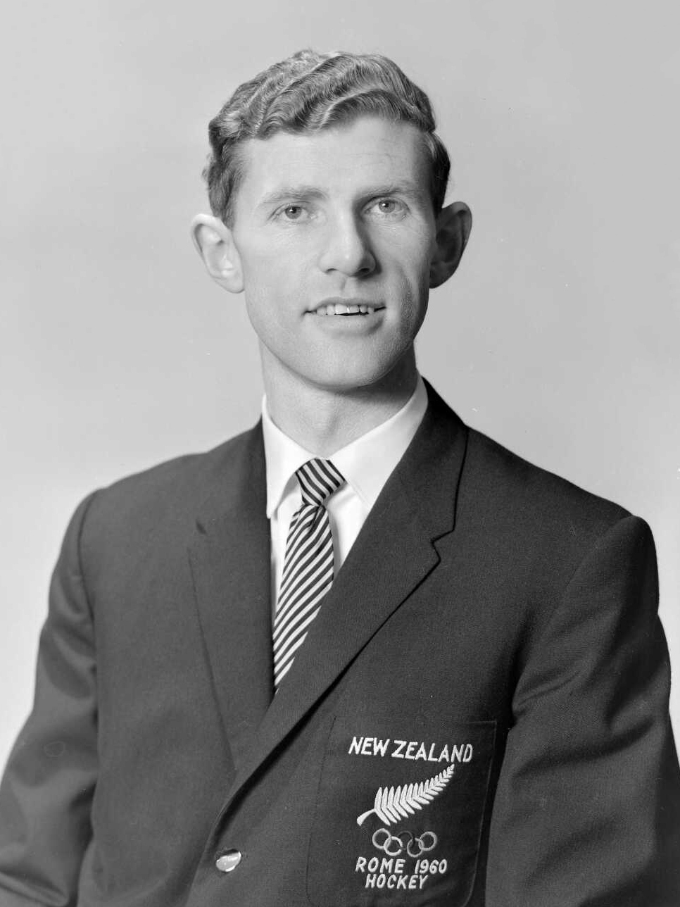 Mr I Kerr, New Zealand representative hockey player at Rome Olympics 1960